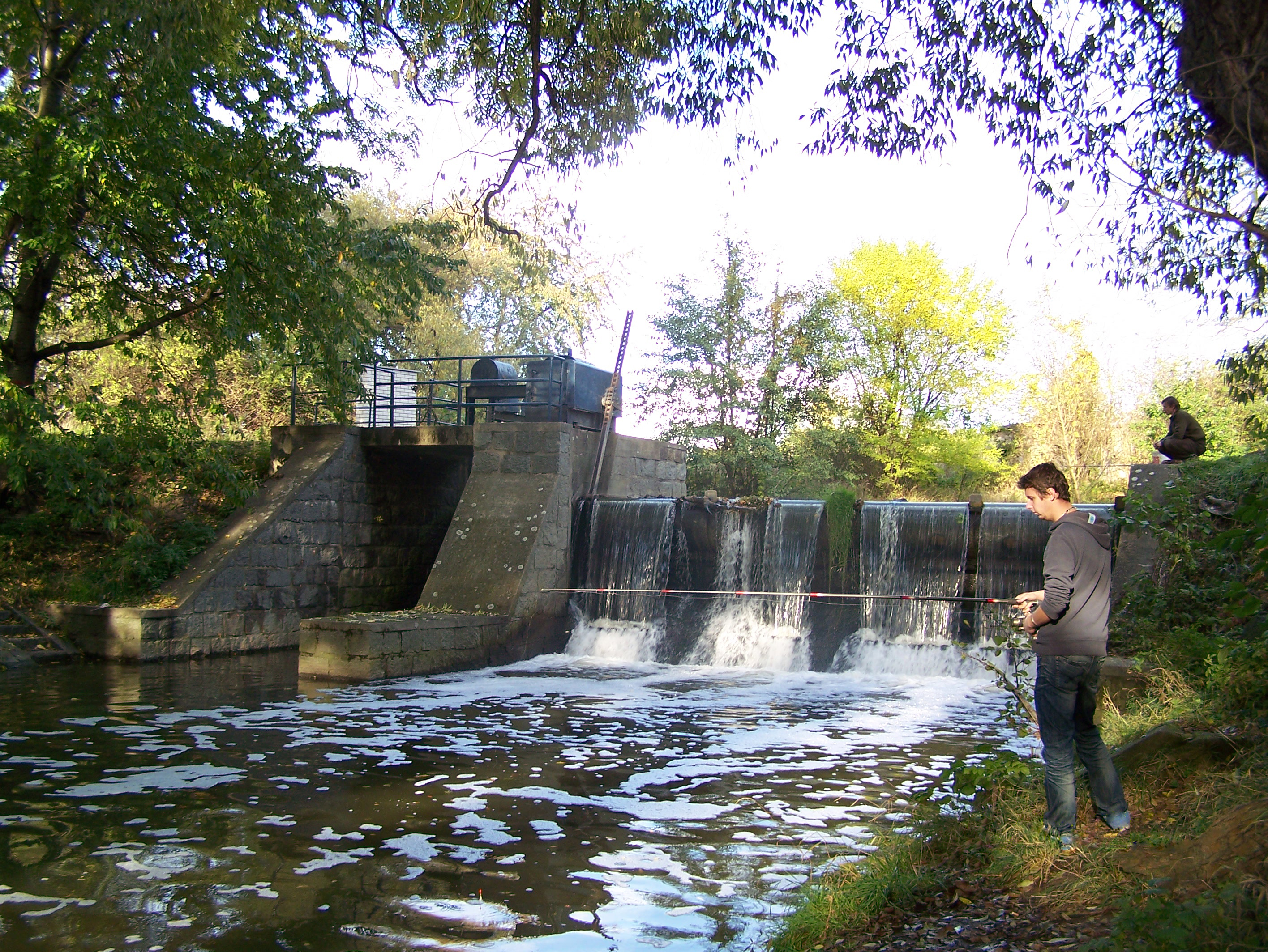 Natural monument Meandry Botiče in Prague, Czech Republic